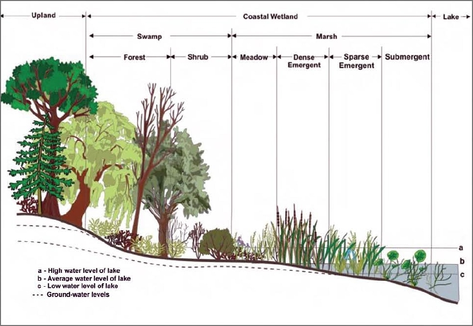 Wetland profile for Great Lakes